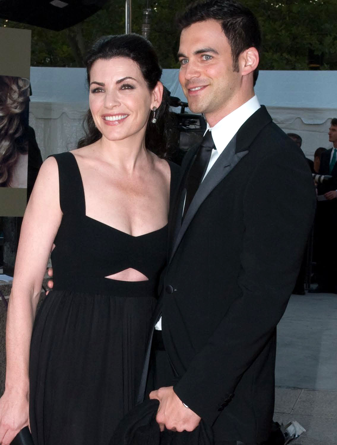 Julianna Margulies and her husband Keith Lieberthal at the Metropolitan Opera opening in 2008. © Rubenstein, photographer Martyna Borkowski